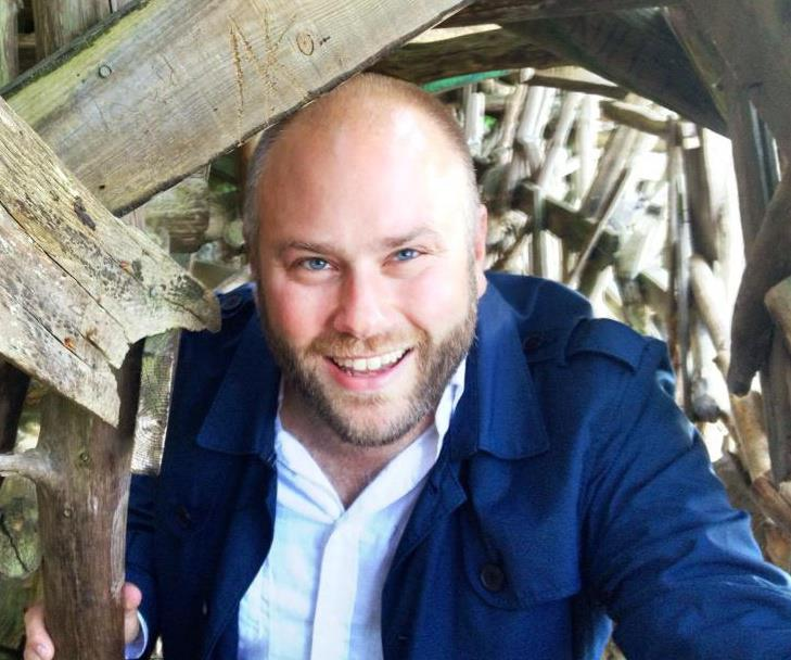 Julian Togelius Original Website Photo.